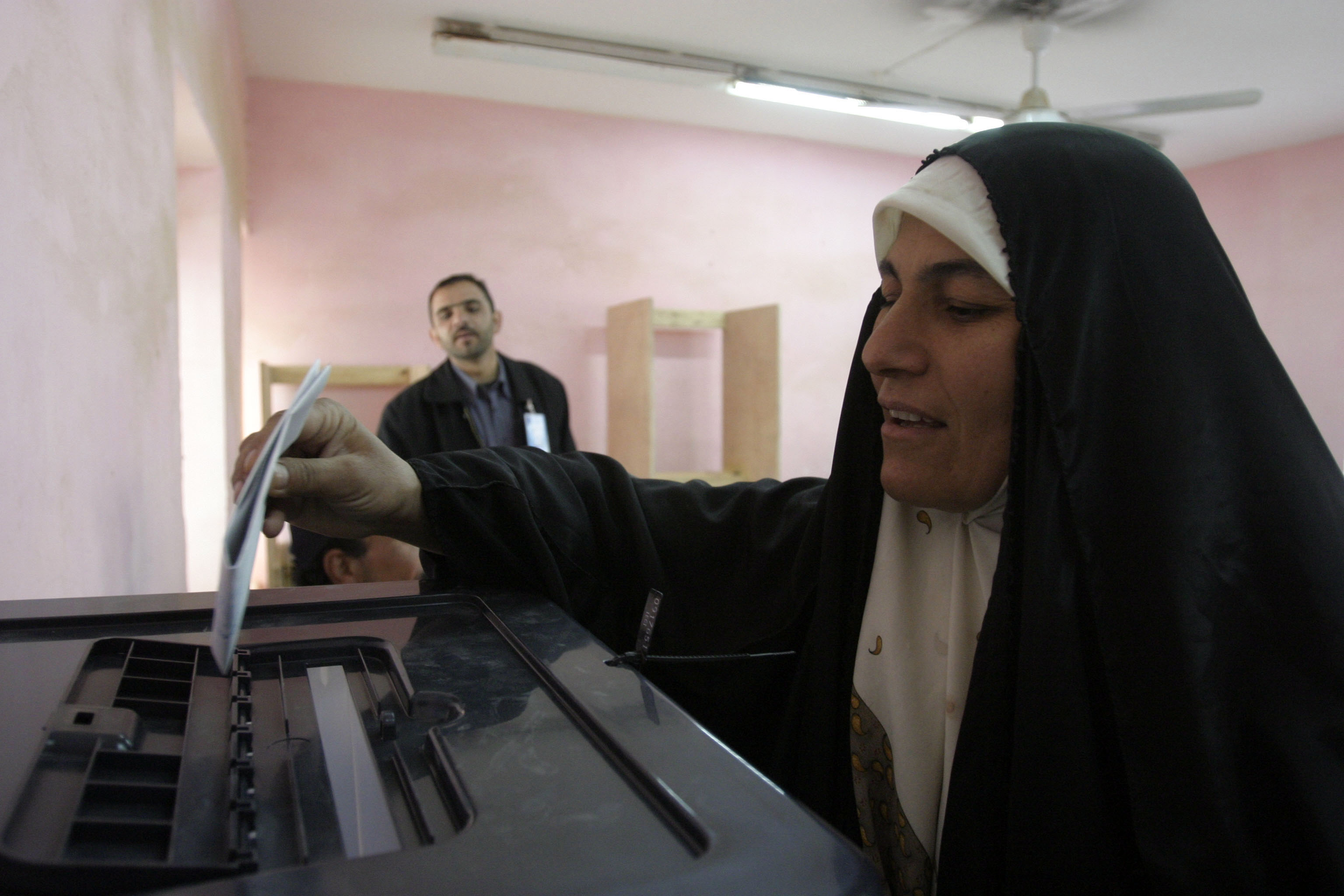 Rawah, Iraq (Dec. 15, 2005) - An Iraqi woman prepares to cast her voting ballot into one of the bins after filling it out at a polling site in Rawah, Iraq during the country’s first parliamentary election. Iraqi citizens elected their first permanent parliamentary government, which will lead the new democracy for the next four years. U.S. Marine Corps photo by Lance Cpl. Shane S. Keller (RELEASED)